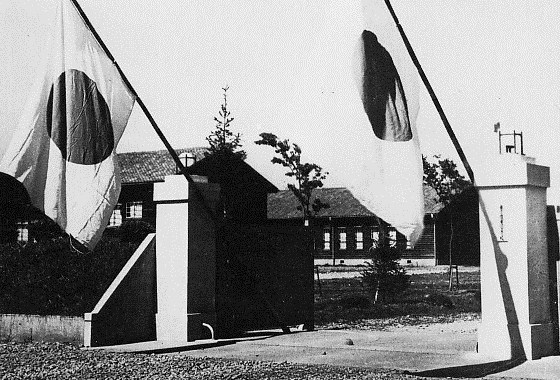 Tokyo Army Aviation School